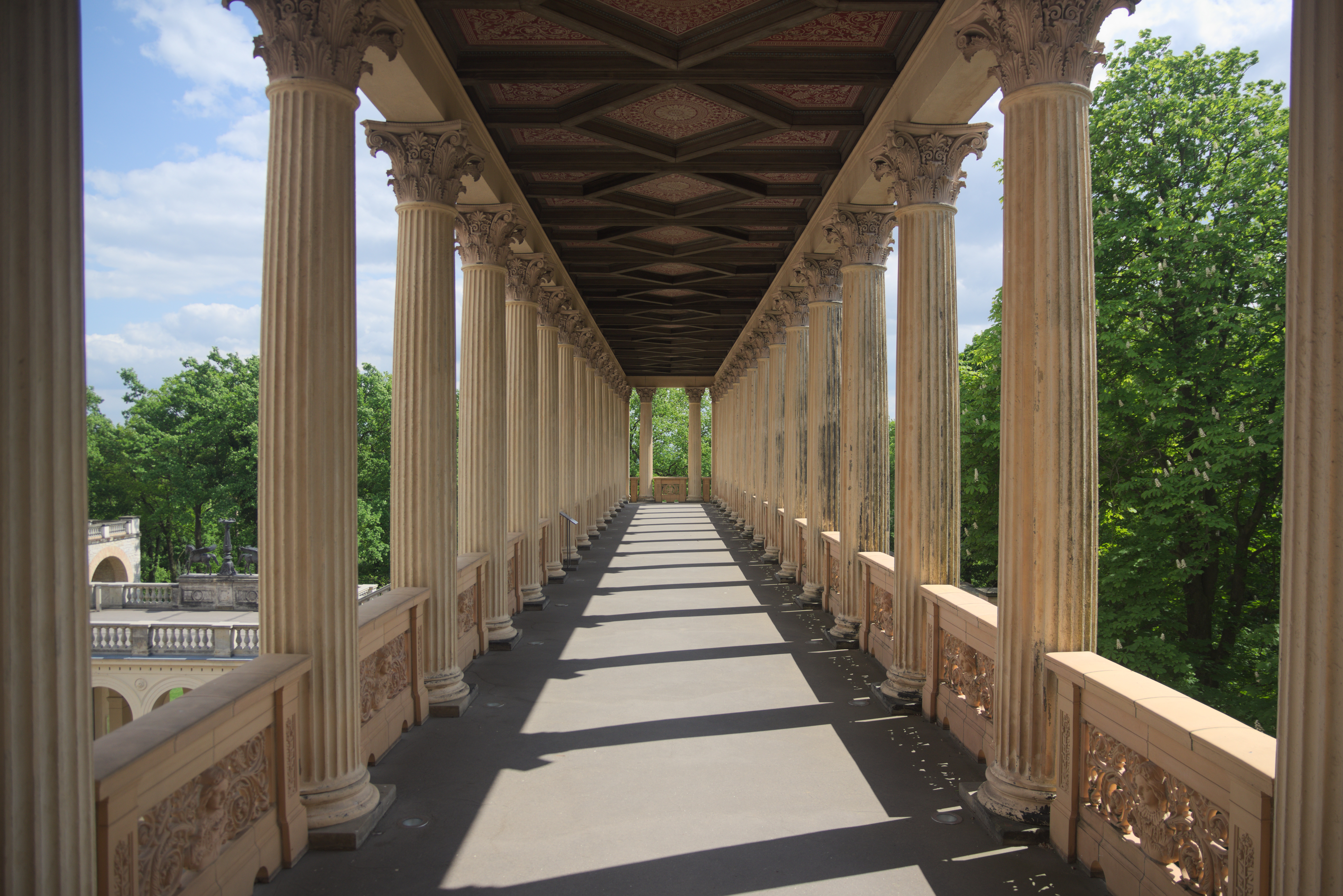 Wikimedia Conference 2015 photo by Pine